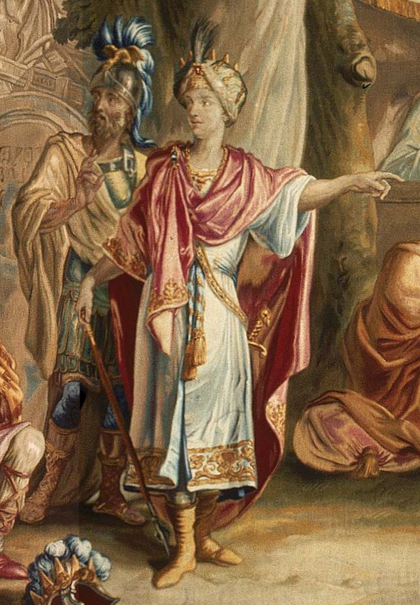 This file has been extracted from another file: The Defeat of Astyages (complete).jpg Cyrus the Great with General Harpagus (18th century)